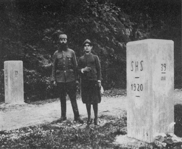 Gendarmerie of SHS (left) and Guardia di finanza (right). Published in Ilustrirani Slovenec on 01.11.1925 and released by Dlib.